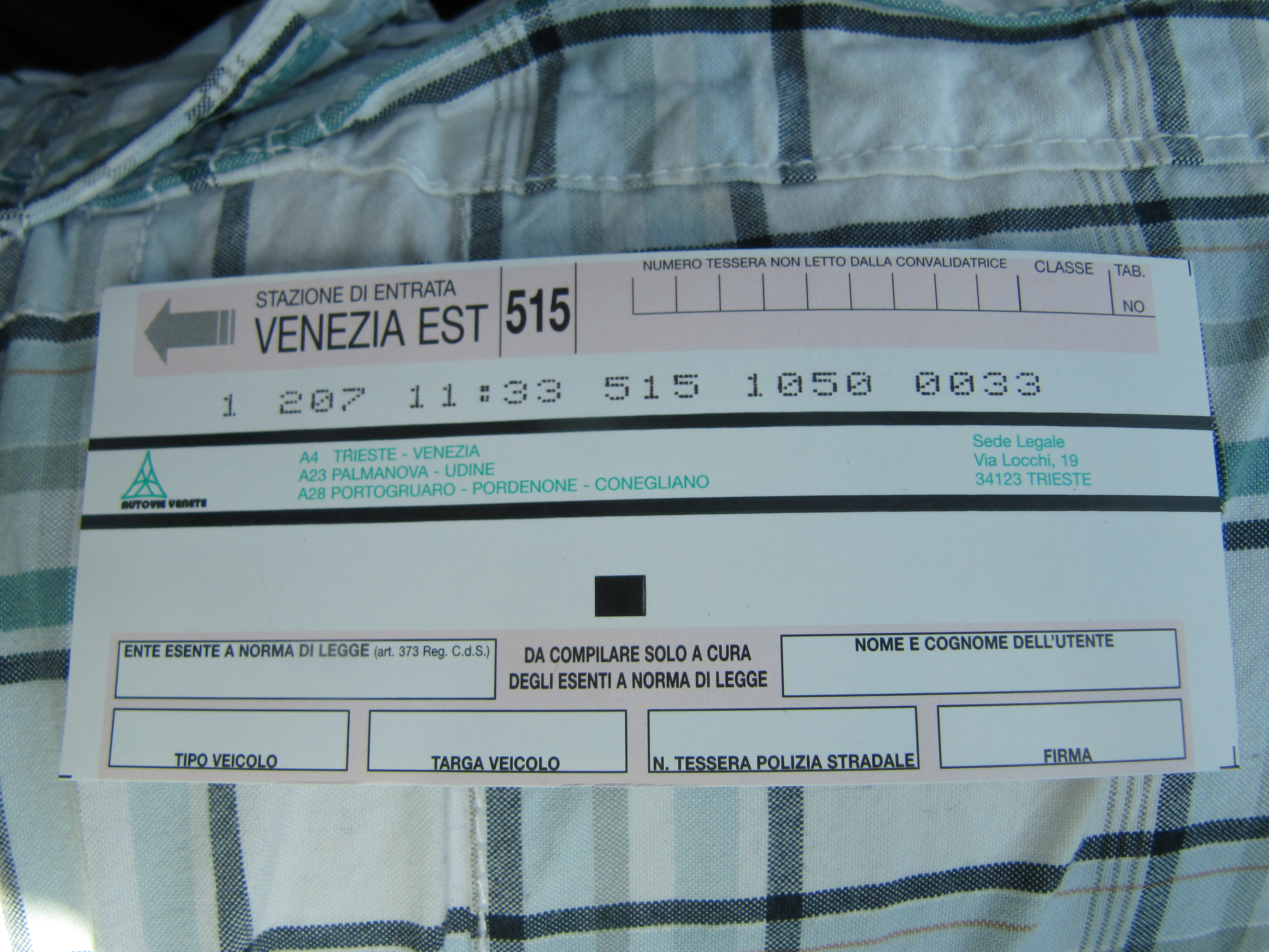 Toll Ticket of a italian motorway